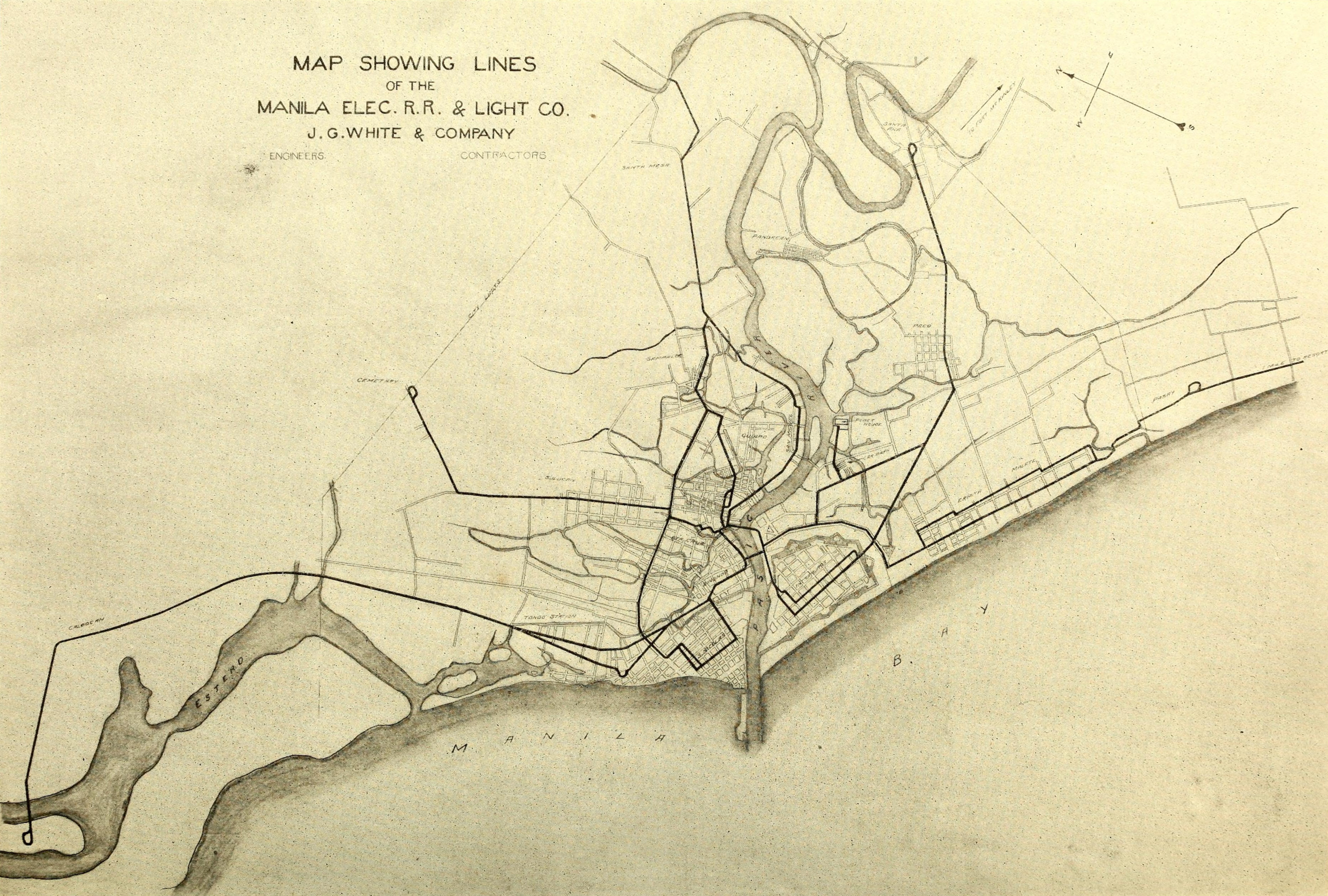 Title: The Street railway journal Year: 1884 (1880s) Authors: Subjects: Street-railroads Electric railroads Transportation Publisher: New York : McGraw Pub. Co. Text Appearing Before Image: hat at that time nearly 10,000 vehicles (two-wheeled carromatas, quilez and calesas) were licensed;about half of these were used for public service, the othersbeing private. The fares charged were high, and it was almostimpossible to secure vehicles except by previously engagingthem. It was estimated that over $4,000,000, Mexican, werecollected per annum by the public passenger vehicles. Again,the incapacity of the local utilities made it necessary for the ing towns of Caloocan and Tondo. Ordinarily, on this steamline, a single train of two cars sufficed, but on holidays andfiestas four cars were required. The horse car line was dividedinto seven different sections, over each of which a 2-cent farewas charged. No attention was paid in the operation of carsto requirements of traffic, and the operation was so irregularthat no dependence could be placed upon the service. The tracks existing were of extremely light construction andnarrow gage. On the steam line to Malabon, T-rail weighing Text Appearing After Image: 708 STREET RAILWAY JOURNAL. (Vol. XXV. No. 17. 35 lbs. was laid on molave ties 4 ft. 7 ins. long, 7 ins. wide and4 ins. thick. The track was located along the side of the high-way and ballasted with earth, sand and gravel. The rails onthe horse car lines weighed 56 lbs., and were ordinarily laiddirectly on the earth and macadam, without sleepers, but withtie rods every 6 ft. Early in 1902 an investigation into the possibilities of com-l)ining the electric lighting and power interests and the tram